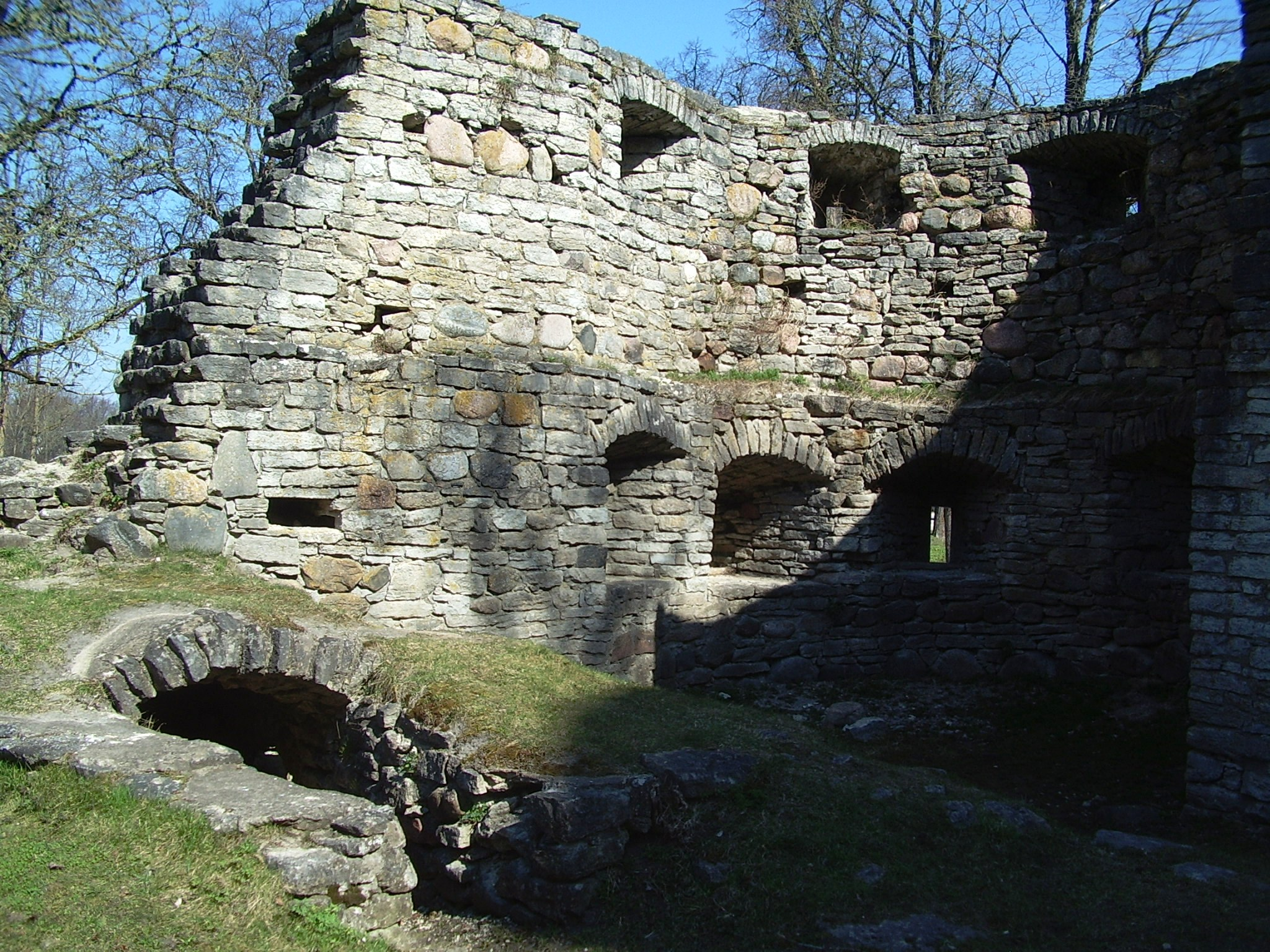 Padise monastery in Lääne-Harju parish, Harju county